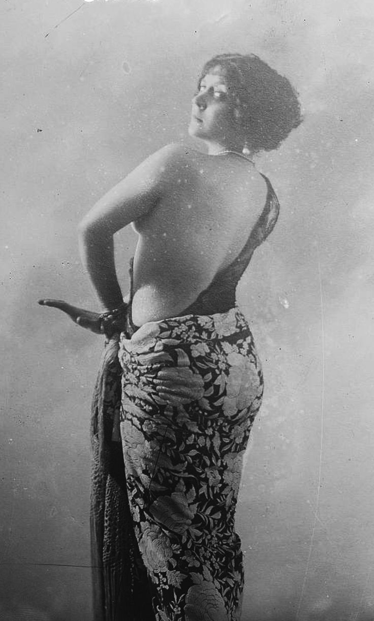 Régina Badet (1879-1949) French ballerina and actress in 1913